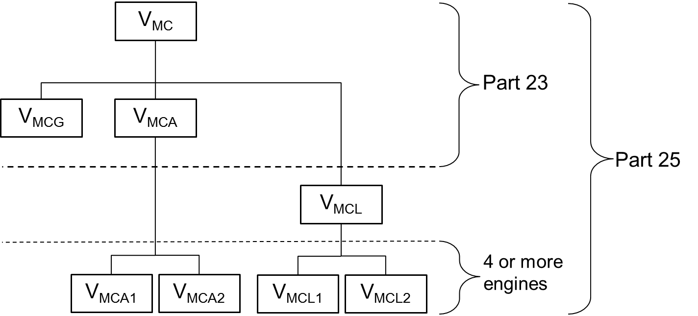 Drawing containing all Vmc's of multi-engine airplanes